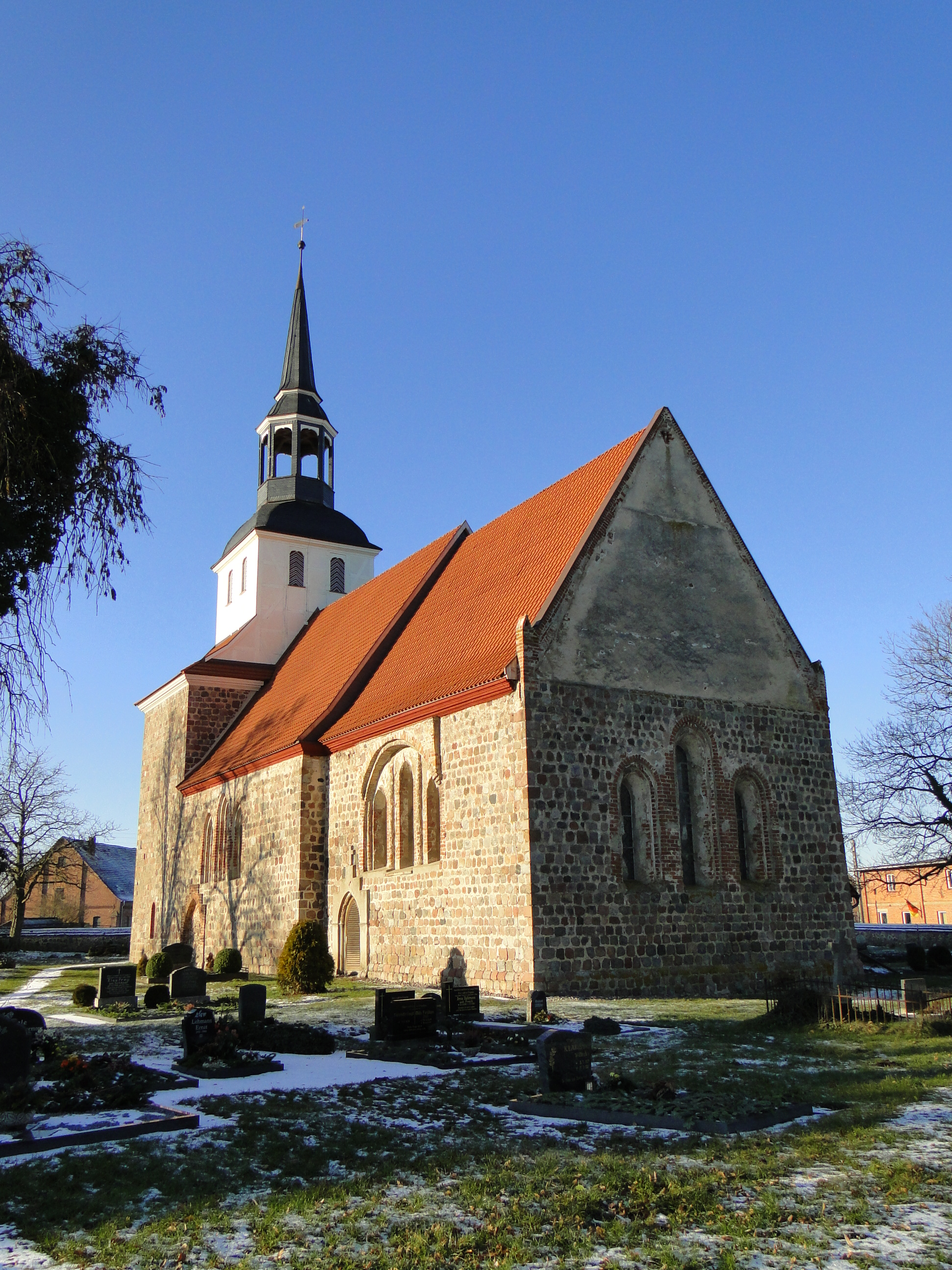 Church in Lübbersdorf, district Mecklenburg-Strelitz, Mecklenburg-Vorpommern, Germany